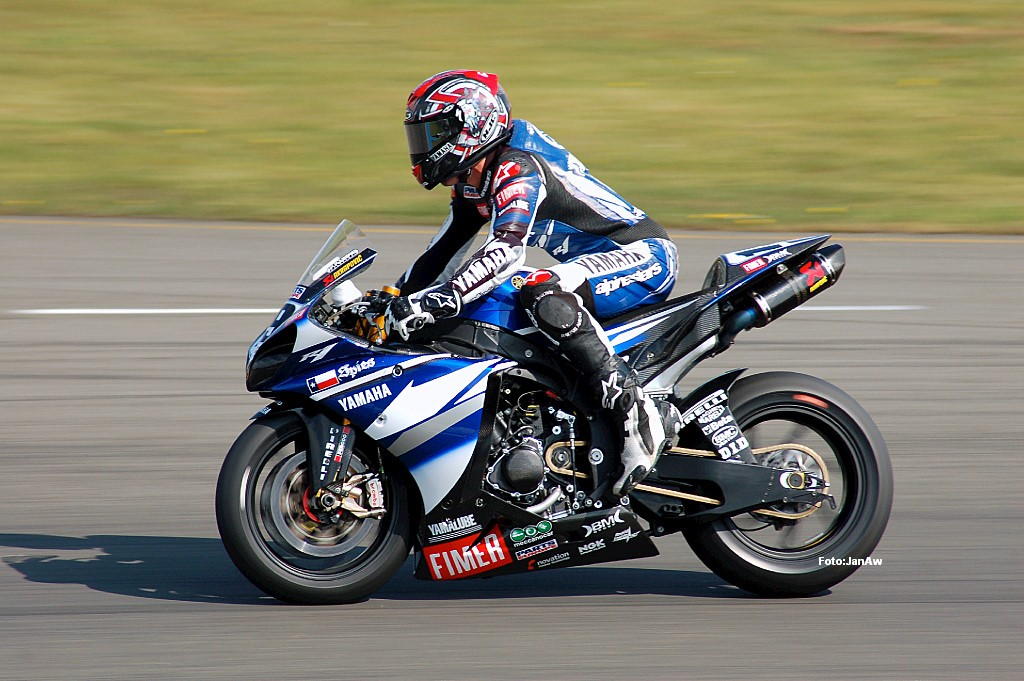 26 april Assen 2009 round 4 WSBK